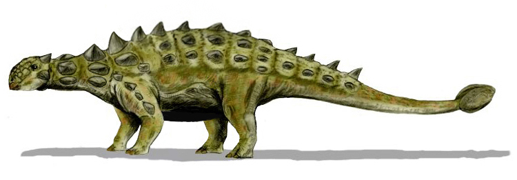 Restoration of ankylosaurid dinosaur. Postcrania based mostly on type specimen of Scolosaurus cutleri, after Carpenter, 1982 [1]. Pencil drawing, digital coloring.